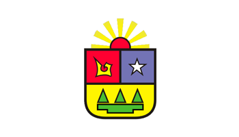 Flag of the State of Quintana Roo, Mexico.